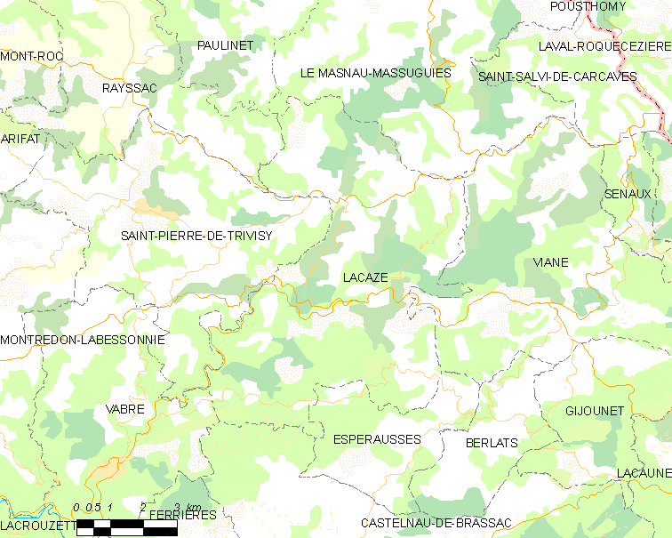 Map commune FR insee code 81125.png - Lacaze (Tarn)